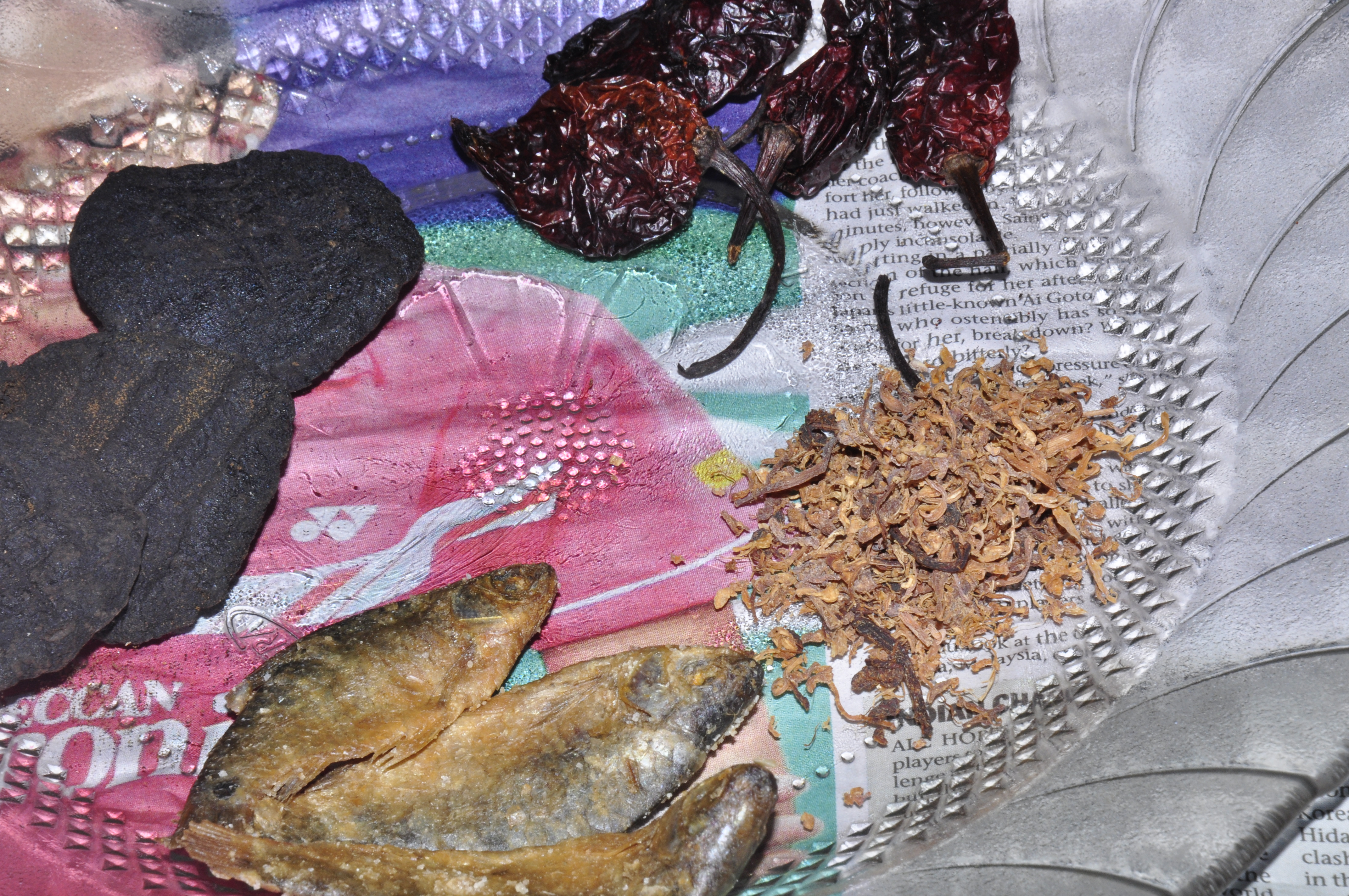 Dried fish, prawns, ghost chilli and dried, preserved Colocasia leaves.